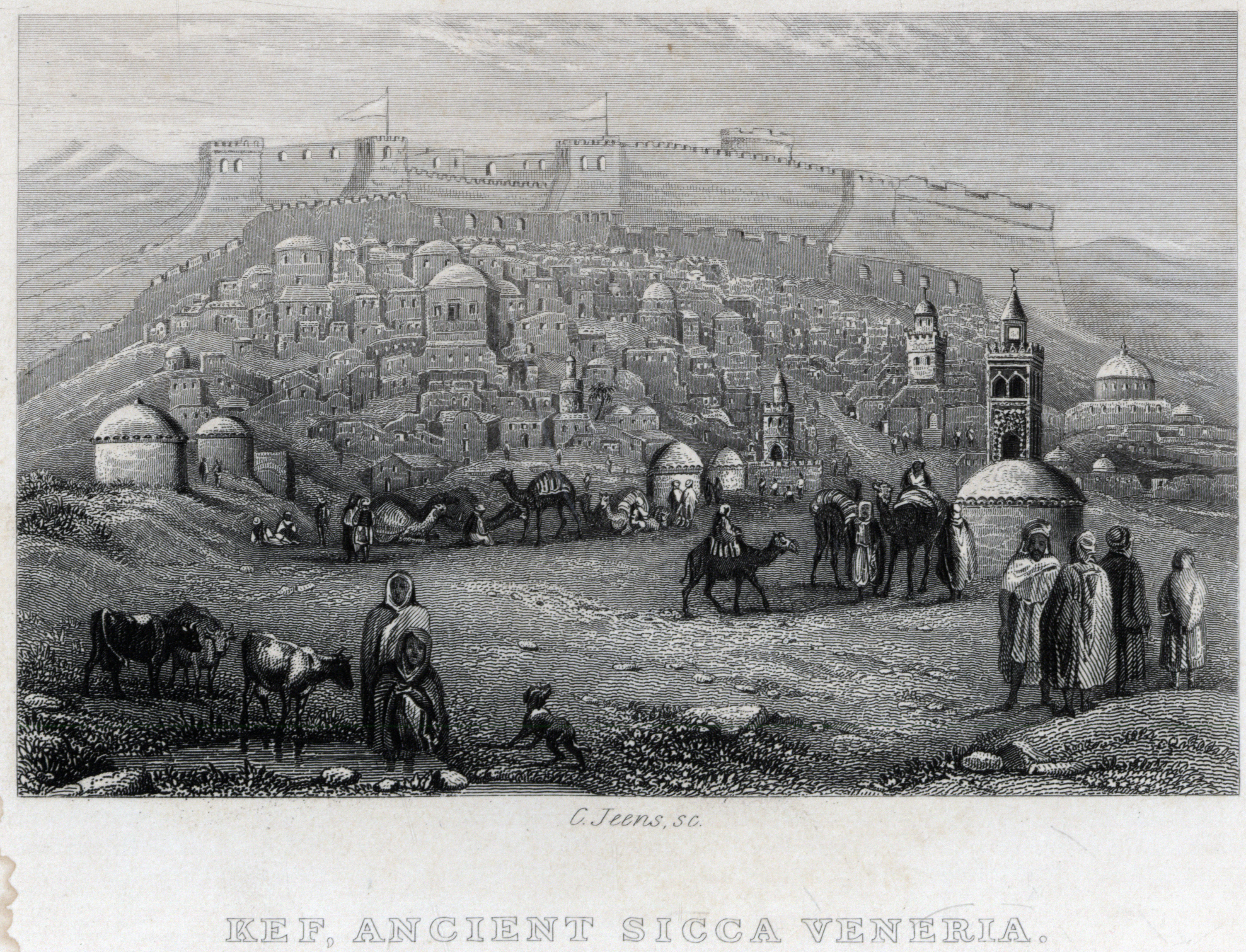 View of Kef (the ancient Sicca Veneria) during excavations at Carthage around 1860